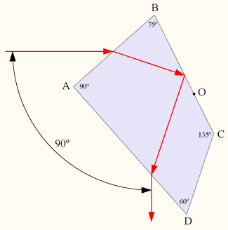 A Pellin-Broca prism. By DrBob. 貝林-布洛卡稜鏡